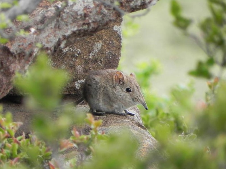 Elephantulus rupestris or Smith's Rock Elephant Shrew = Farm Rookwood near Queenstown, South Africa